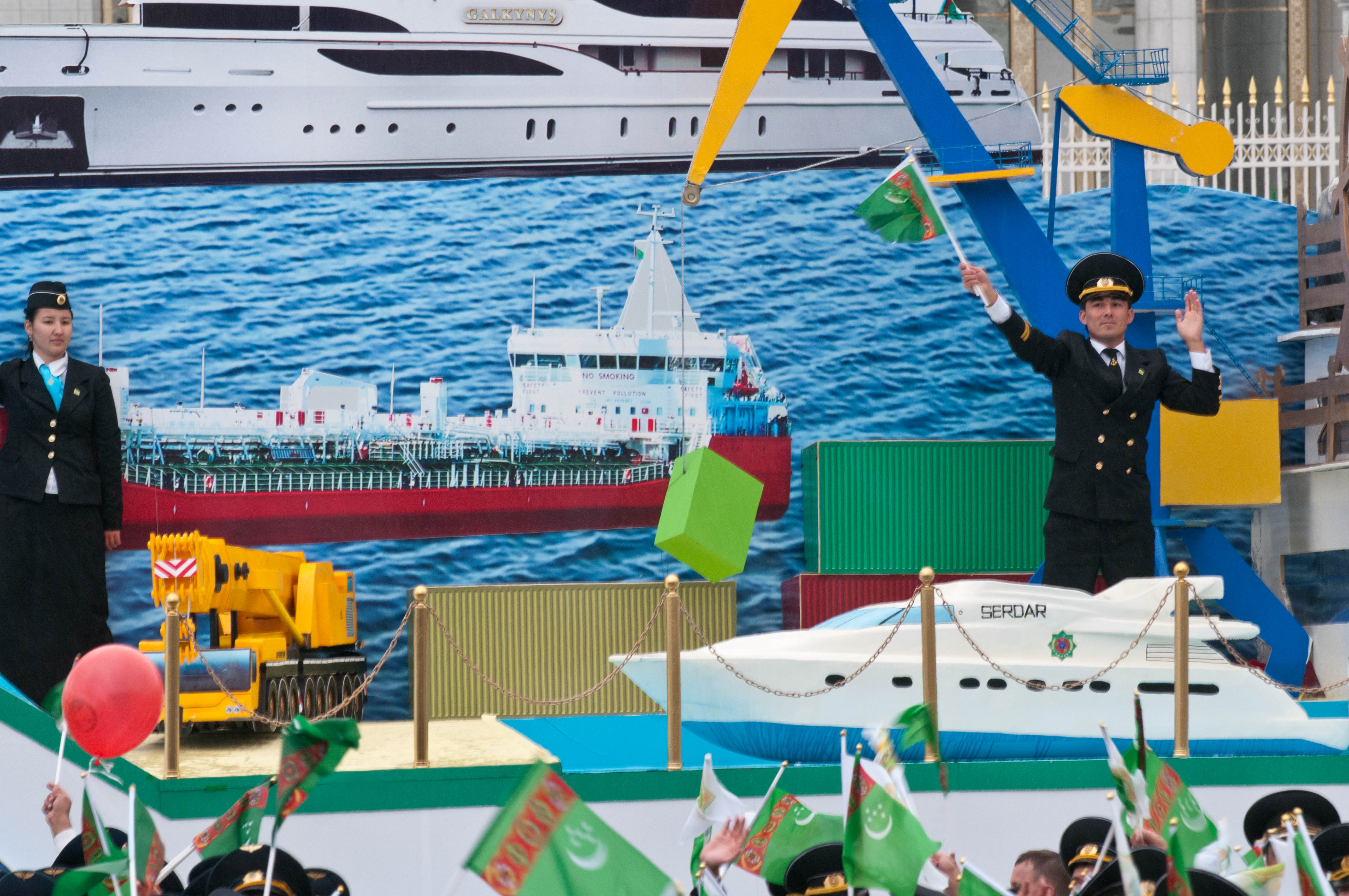 Celebrating the 20th year of independence in Turkmenistan